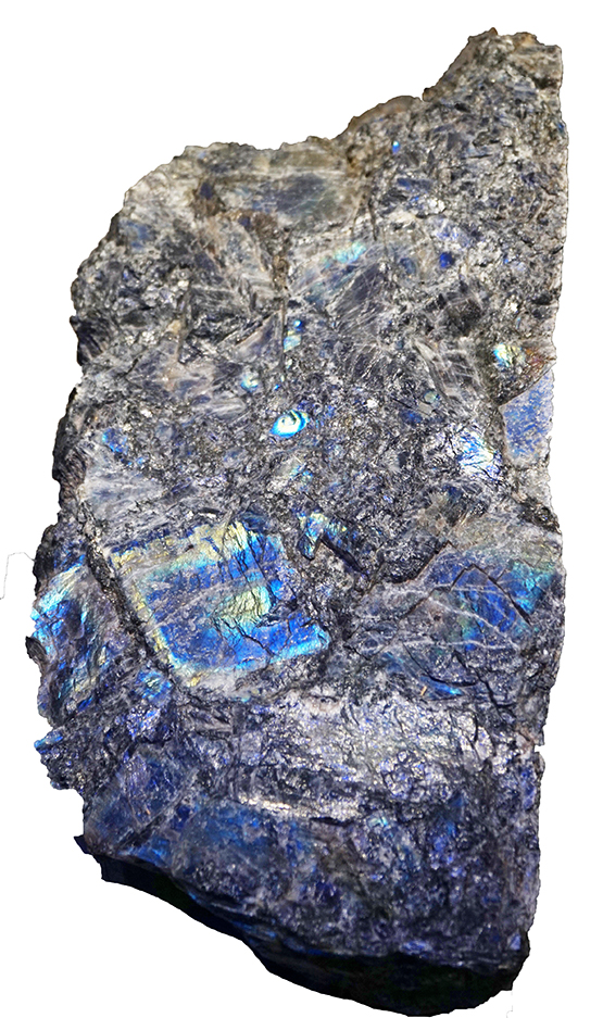 Spectrolite in Tampere Mineral Museum.